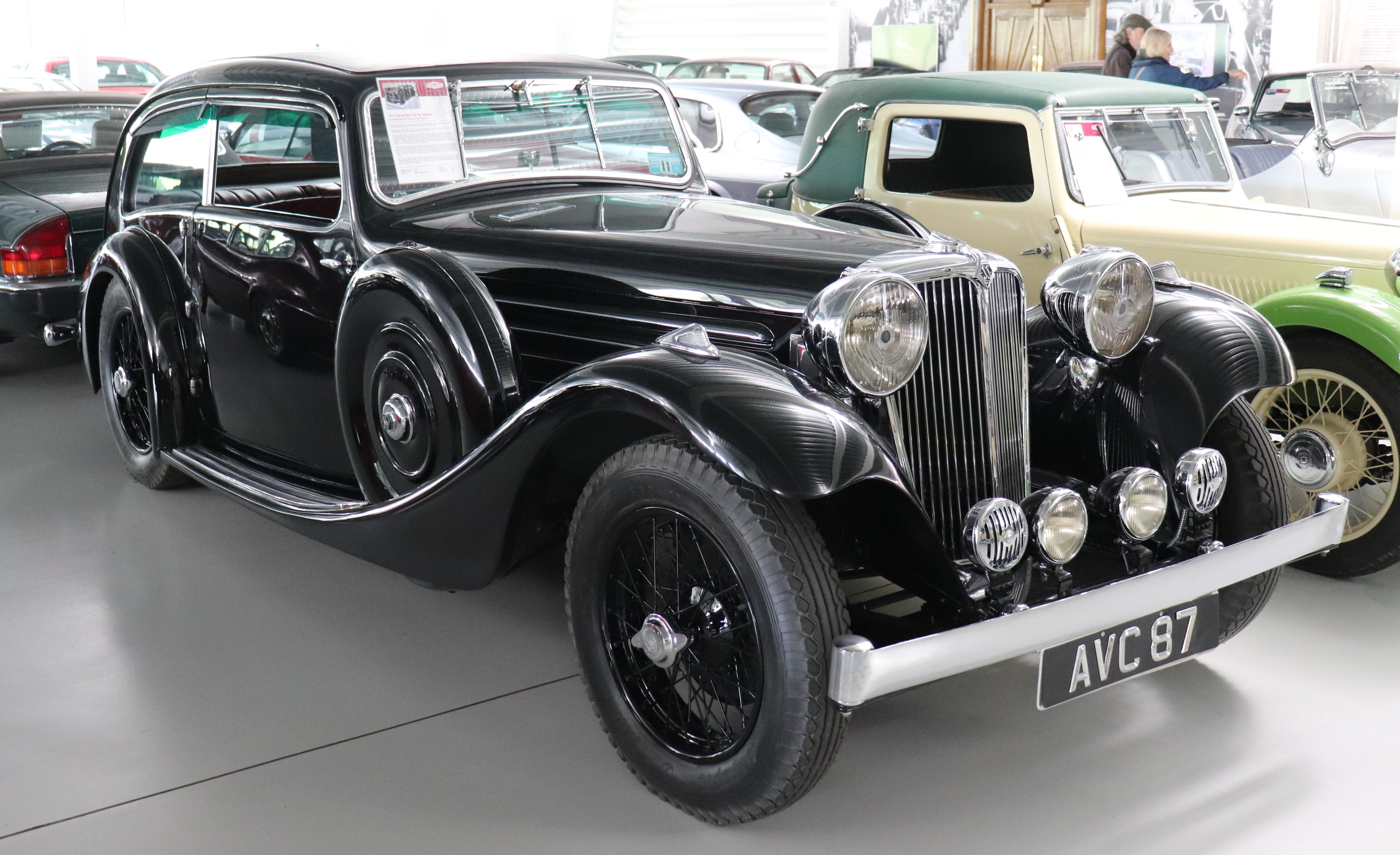 1935 SS1 Airline 2.7 Taken at the British Motor Museum, Gaydon